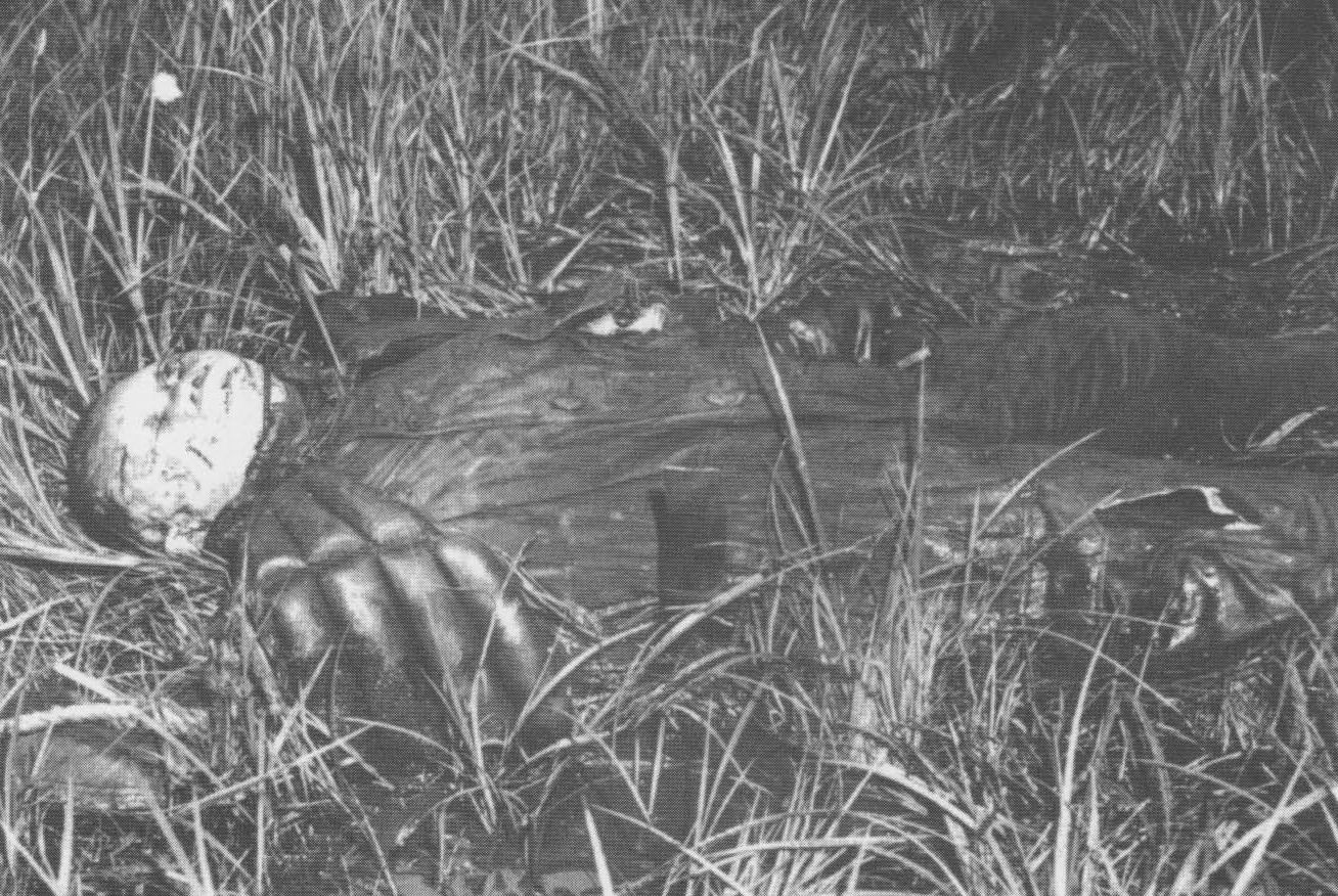 The body of Imperial Japanese Navy Zero fighter pilot Tadayoshi Koga after being recovered from his crashed aircraft on Akutan Island, Alaska on July 11, 1942 just before being buried. Koga had crashed his aircraft on June 4, 1942 after participating in an air raid on Dutch Harbor.